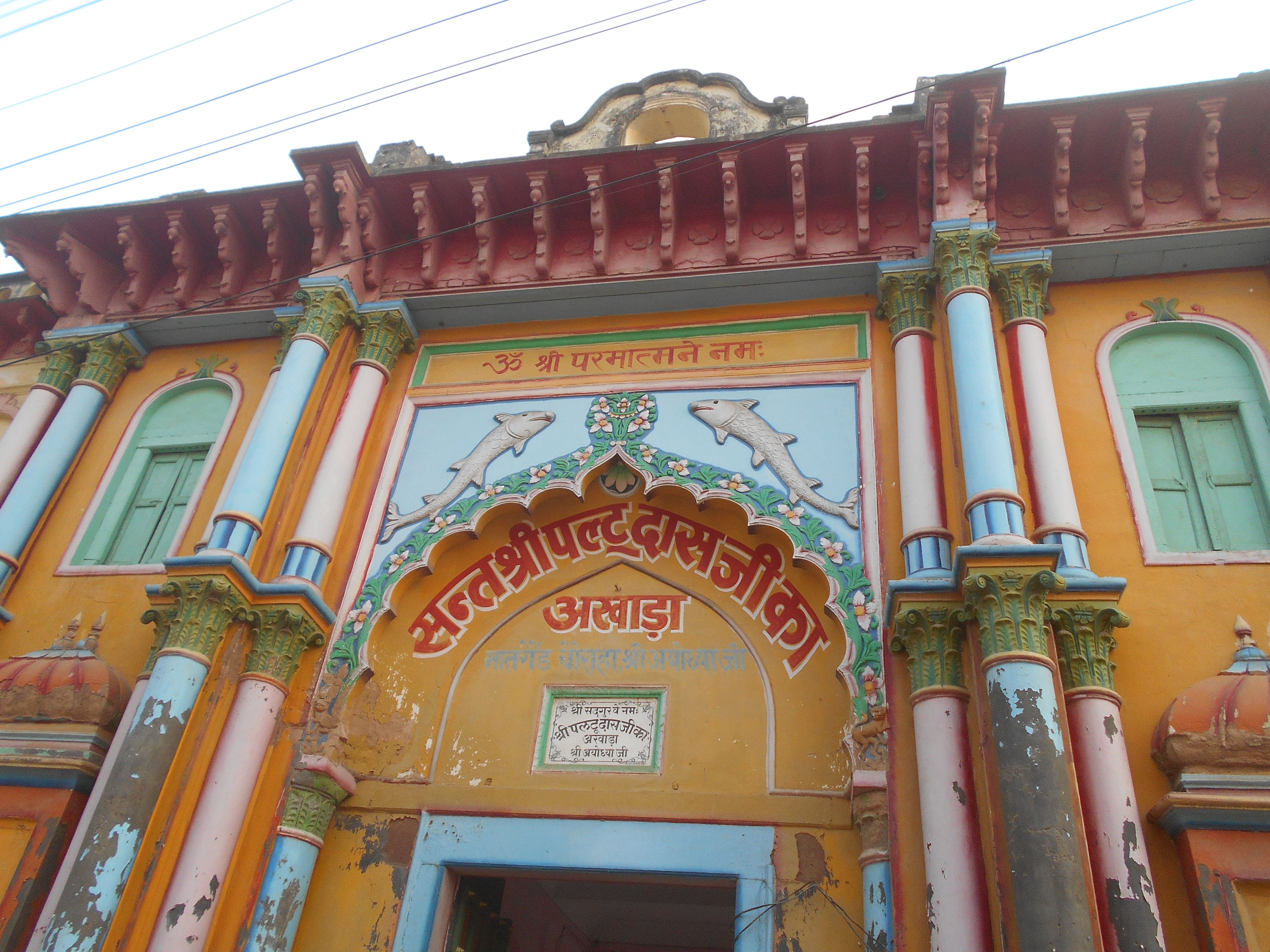 A Temple